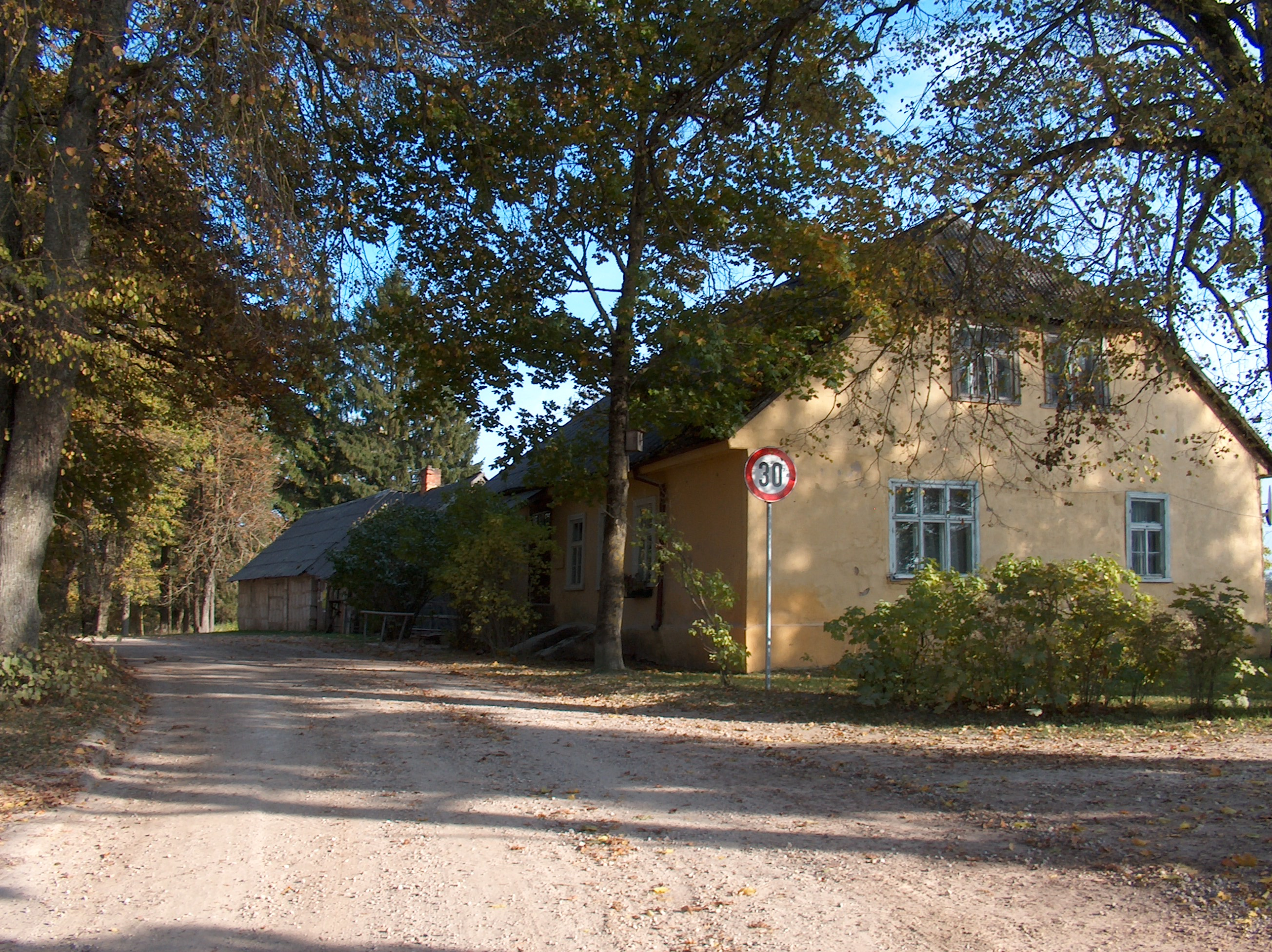 Street in Dzimtmisa, Latvia